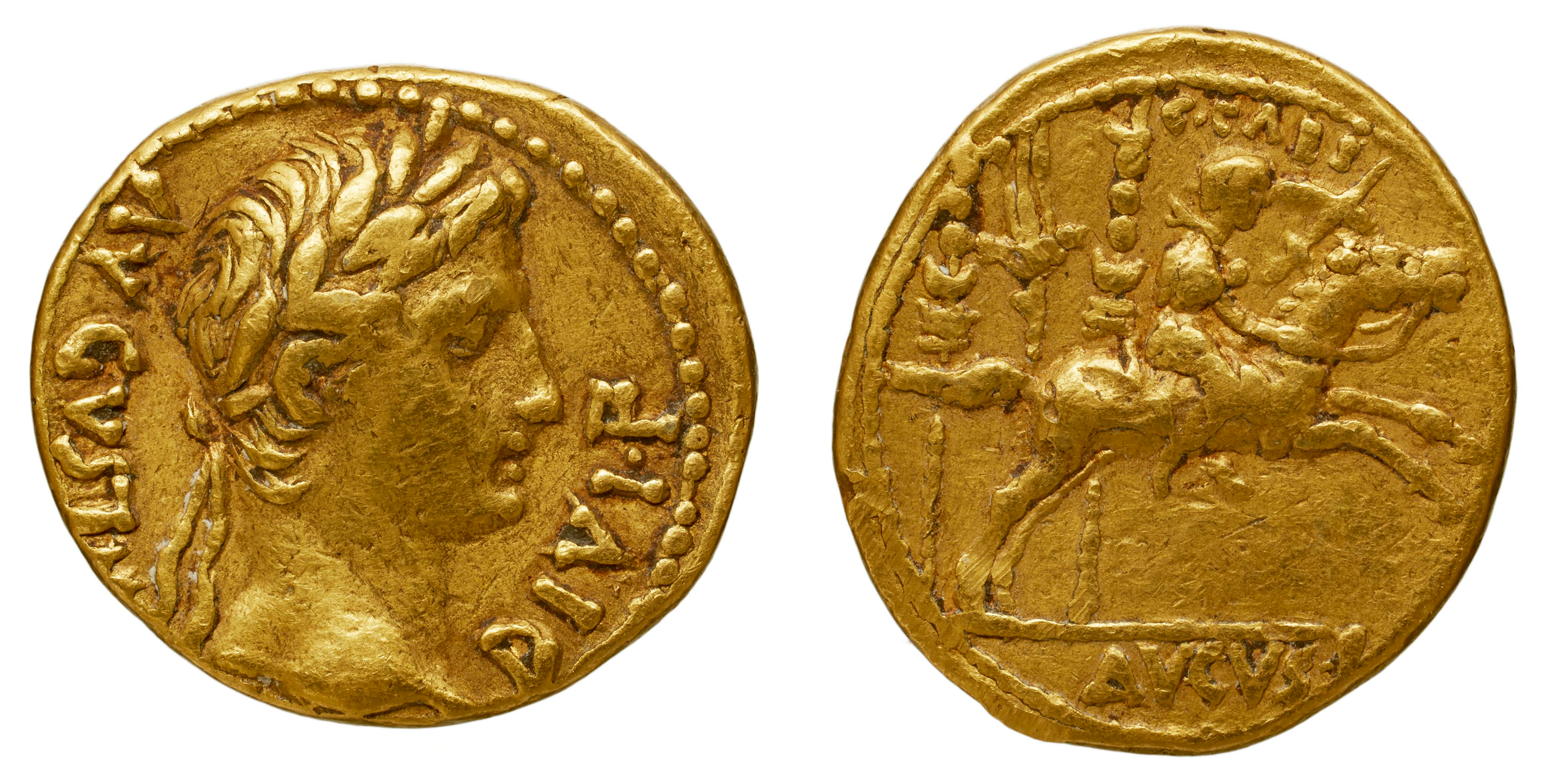 Gold coin, Aureus, Auguste, Lyon. 7.90 g.